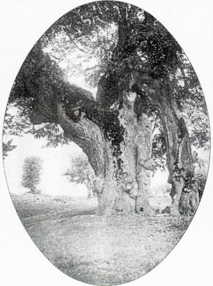 Kunigundenlinde (Kunigunde lime tree) at Kasberg, Bavaria.